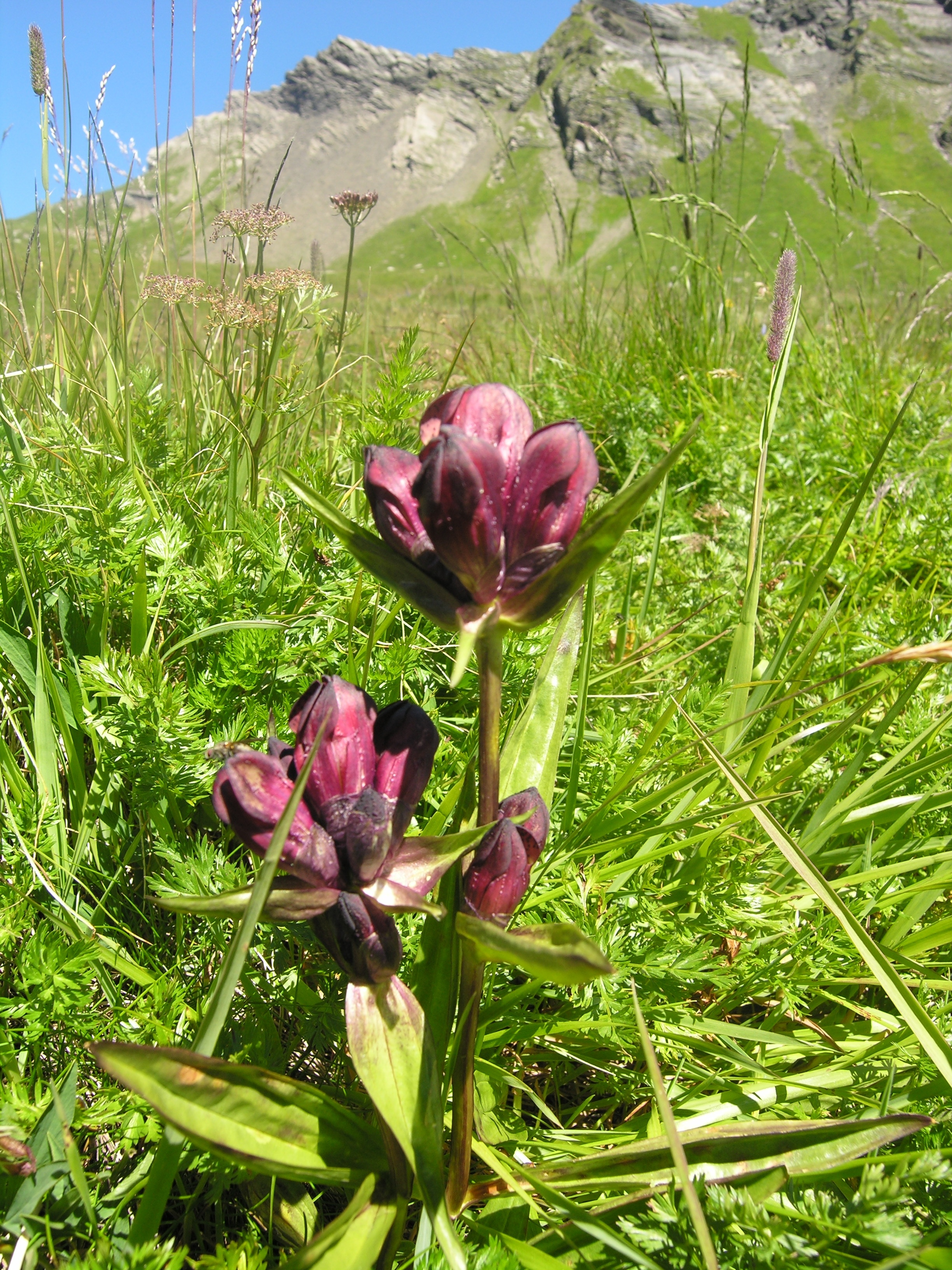 Gentiana purpurea, Swiss alps